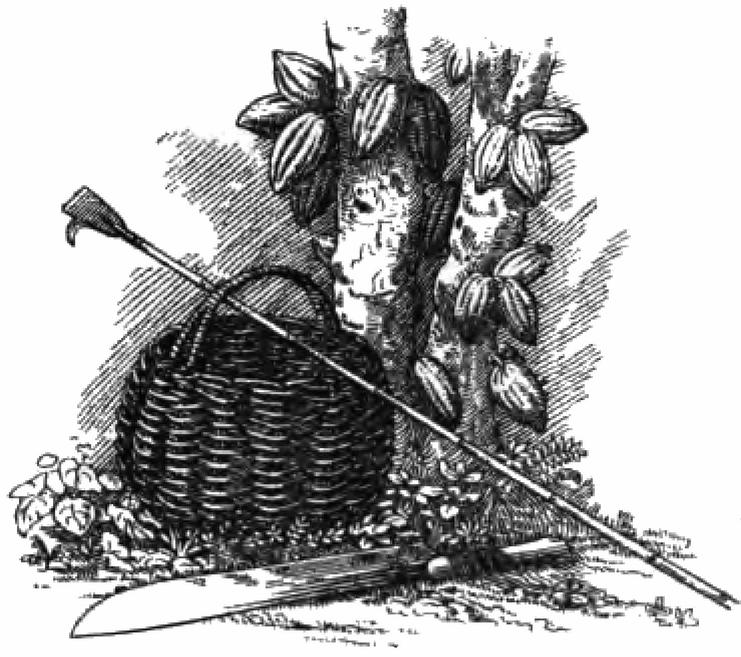 Cacao harvesting tools